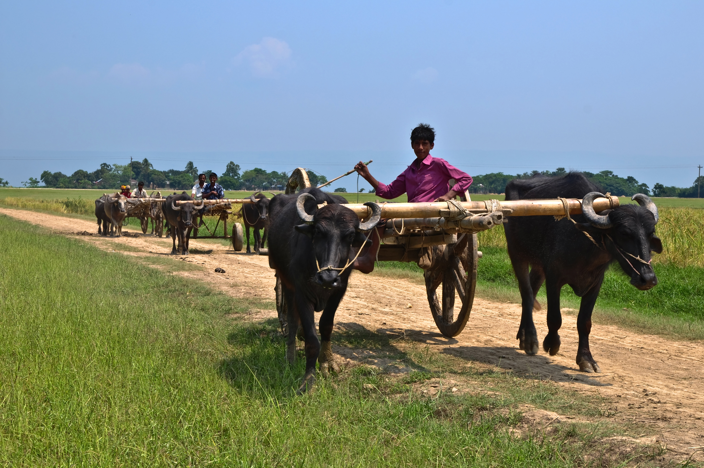 Buffalo carts are used for carrying of paddy in the haor area of Bangladesh